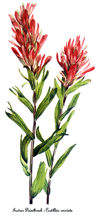 Watercolor painting of Castilleja_miniata.